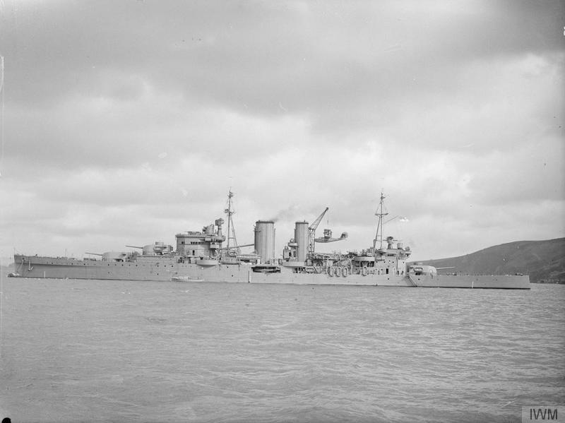 British Warships of the Second World War The cruiser HMS EXETER off Devonport after a refit.